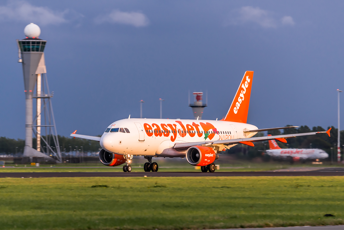 EasyJet Airbus A319 departing from the Polderbaan at Amsterdam Schiphol Airport with a company aircraft and the remote control tower for the Polderbaan (runway 18R/36L) visible as well. Aircraft wears special "Napoli" colours.